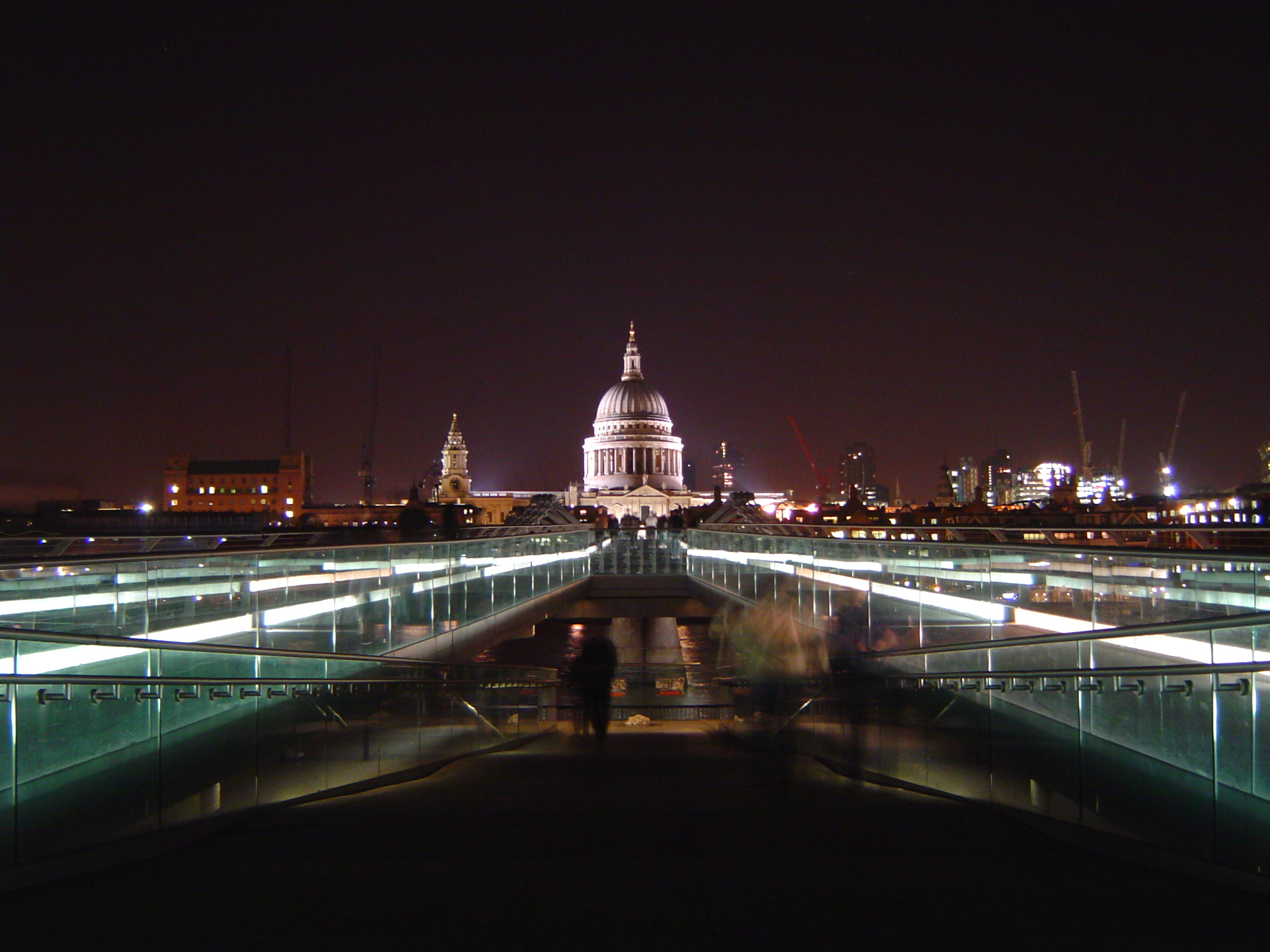 St Paul's Cathedral, London, viewed from south bank end of Millenium Footbridge, near Tate Modern.